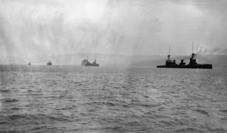 AWM Caption: THE FLEET, HEADED BY THE FLAGSHIP HMAS "AUSTRALIA", ENTERING RABAUL ON 1914-09-12.